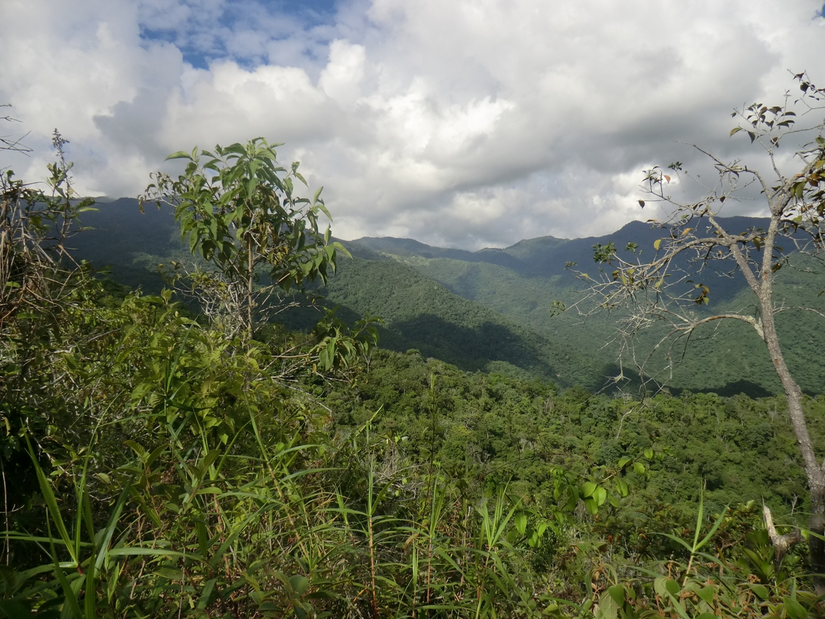 Forests of the Venezuelan Coastal Range, of the northern Andes.